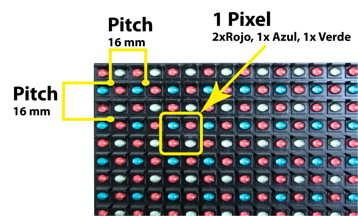 Que significa PITCH